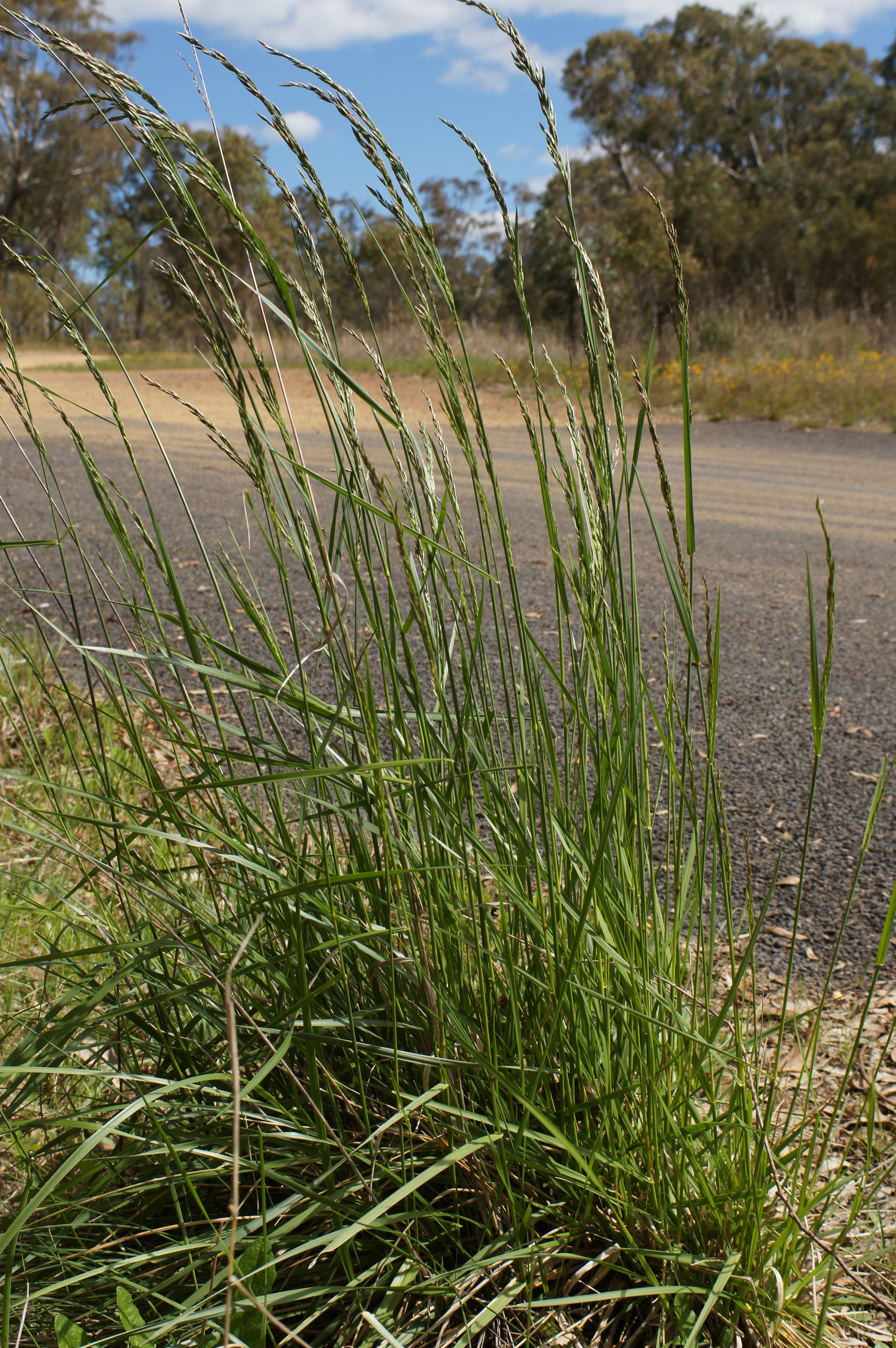 Introduced, yearlong green, perennial, erect, tussock-forming grass to 1.2 m tall. A native of Europe, it is widely sown in lawns and pastures in the south of the region. Also found along roadsides and drains.